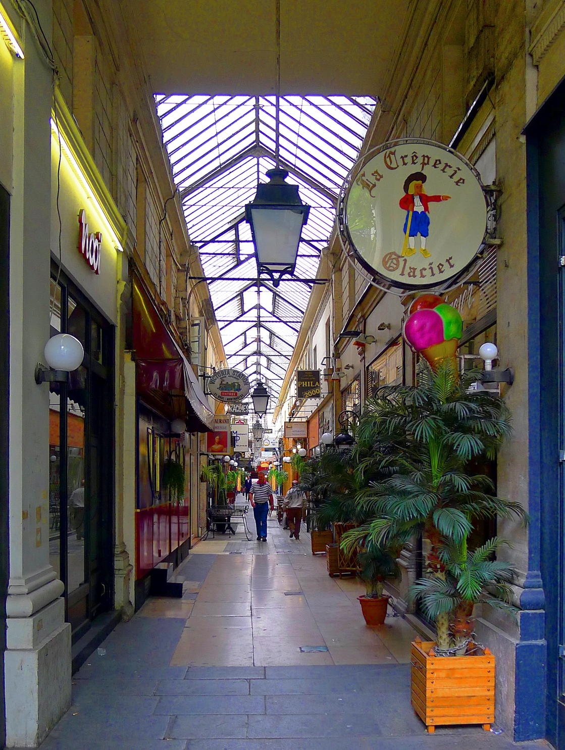 Passage des Panoramas - Paris